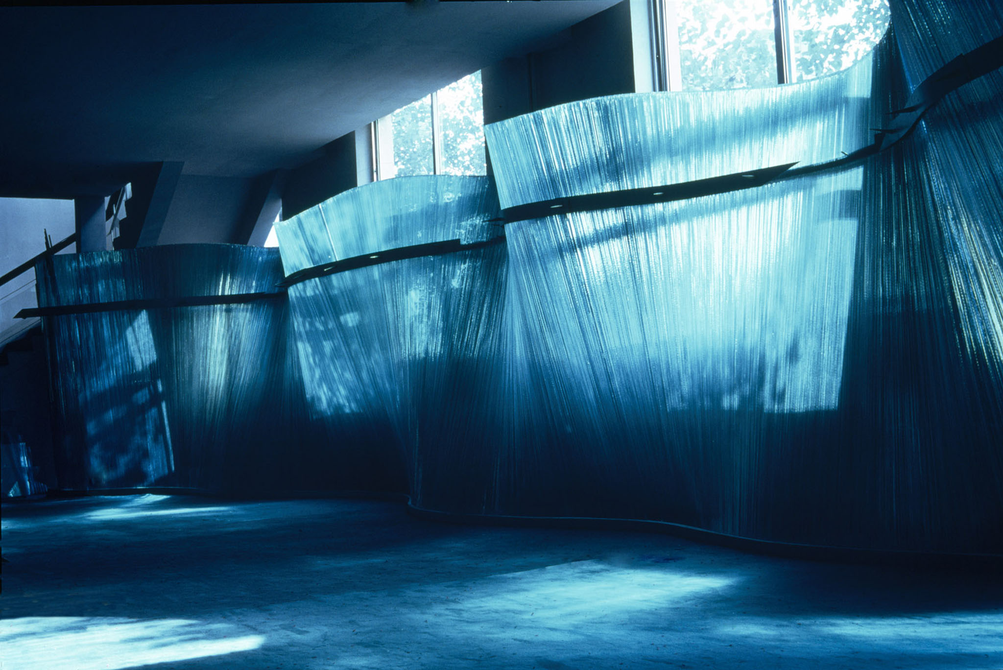 Wave Wall, Danny Lane, 1993, Glass, steel